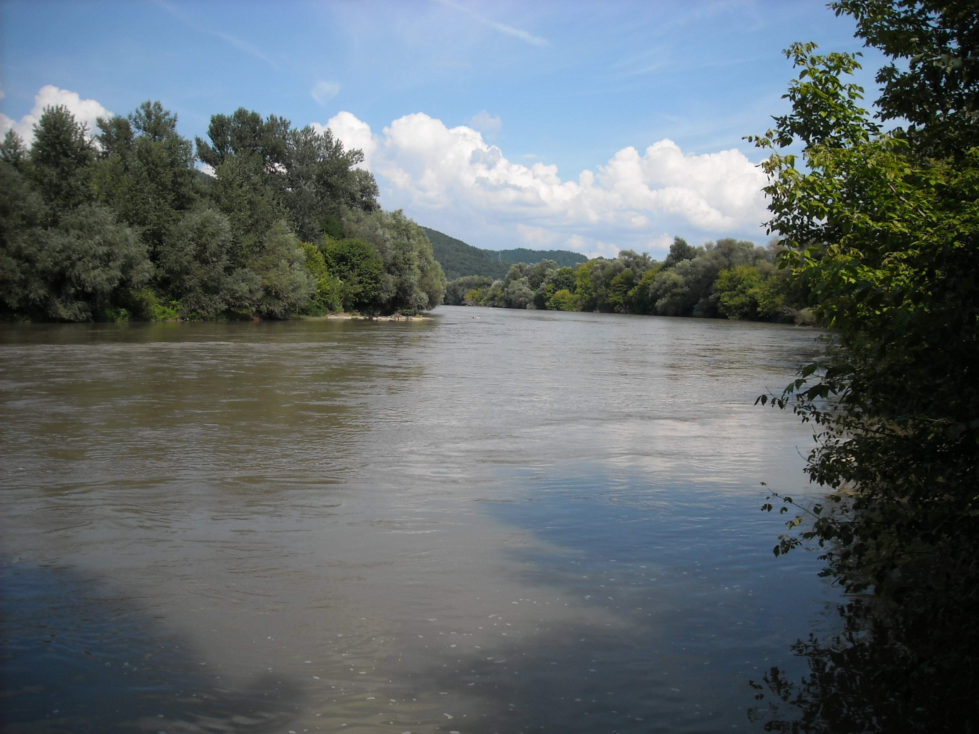 the Mureș river at Căprioara